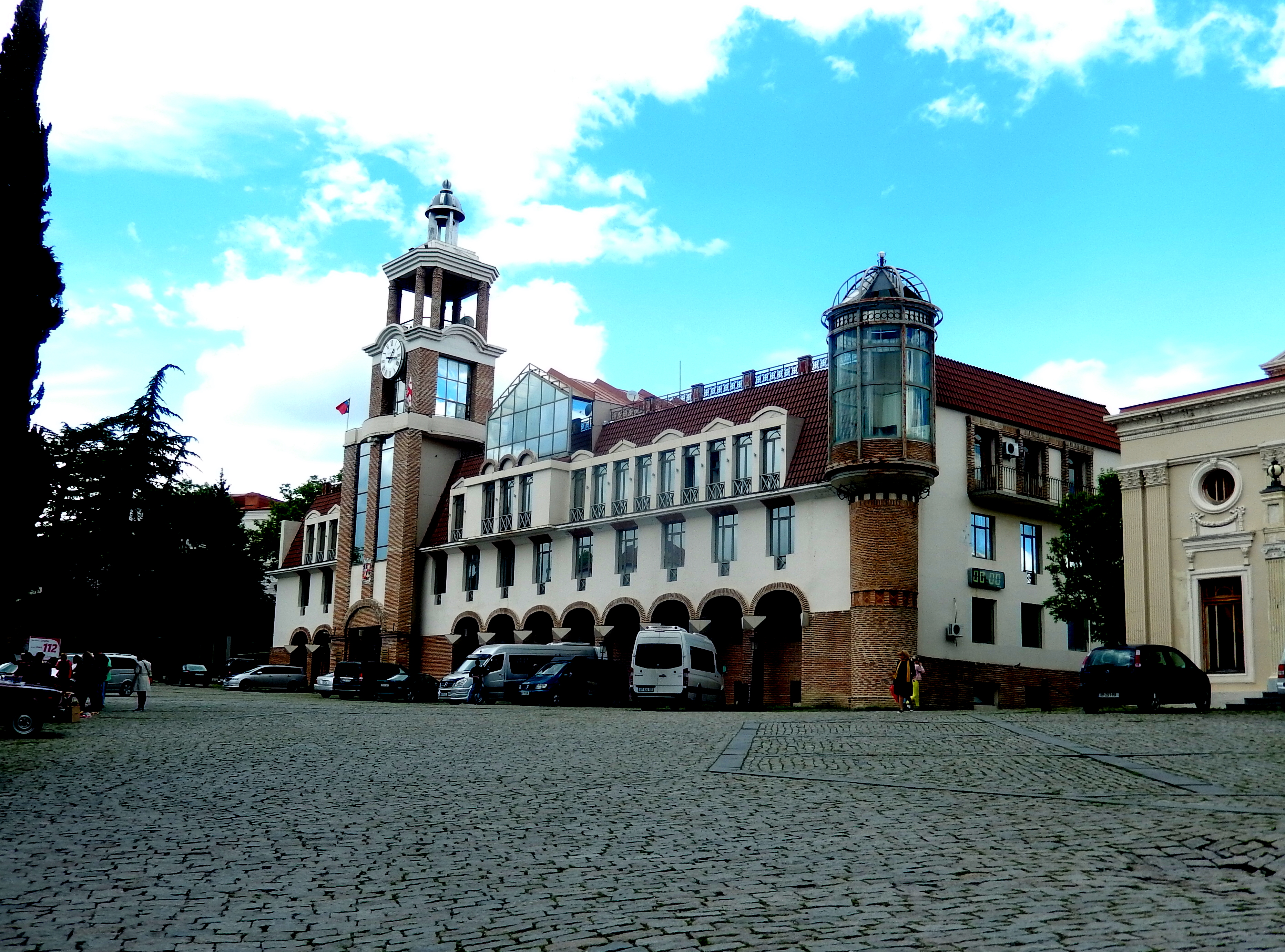 Sighnaghi